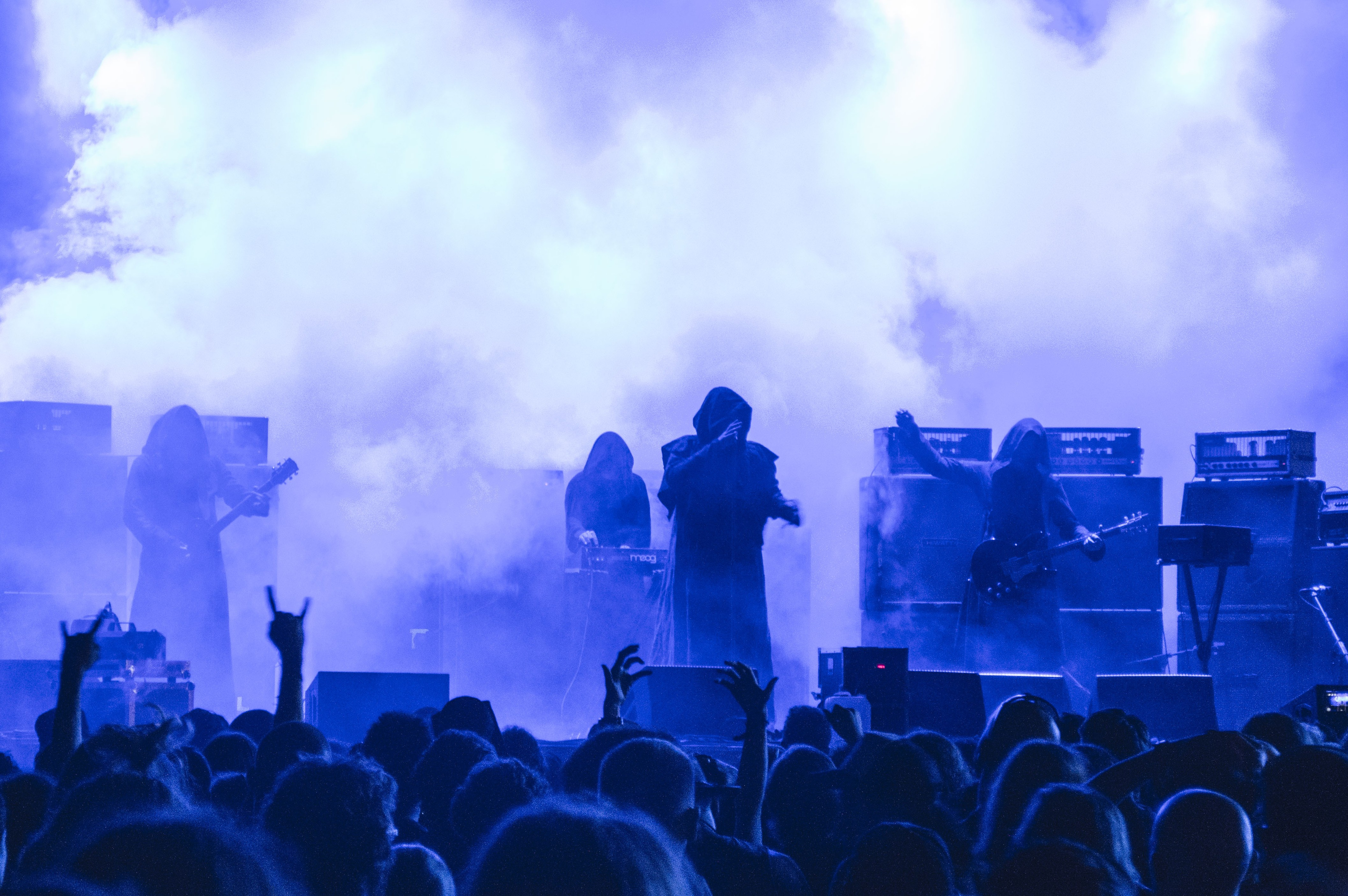 Band Sunn O))) performing at Brutal Assault festival in the Czech Republic. 2015